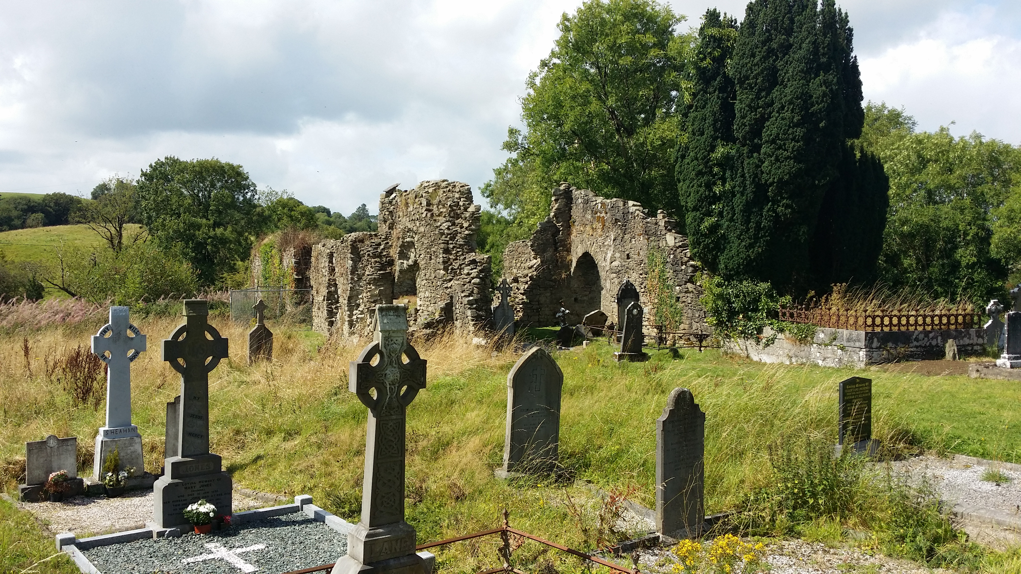 Mourne Abbey